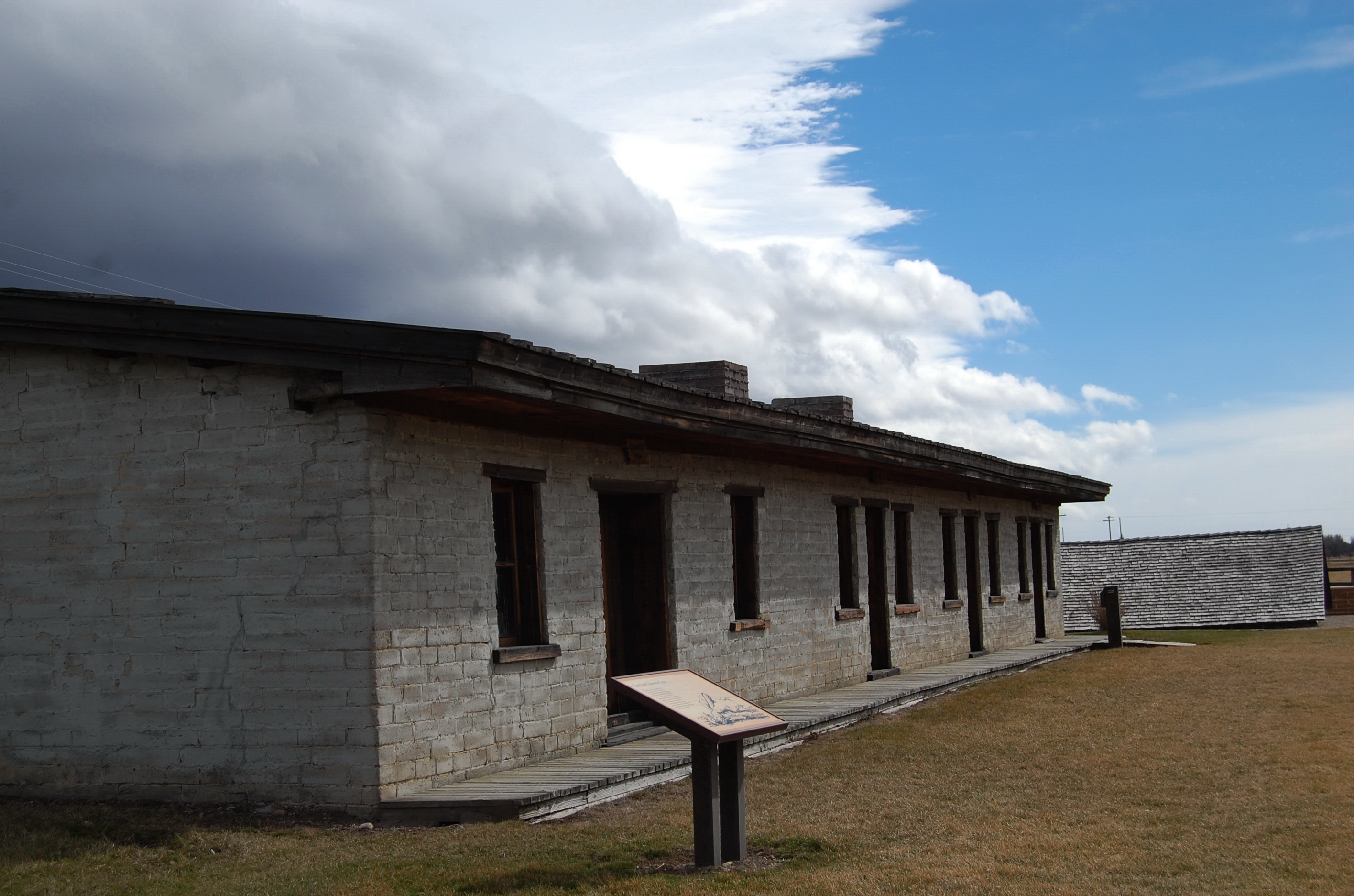 Nez Perce National Historic Trail, Fort Owen State Park near Stevensville, MT. US Forest Service photo, by Roger Peterson